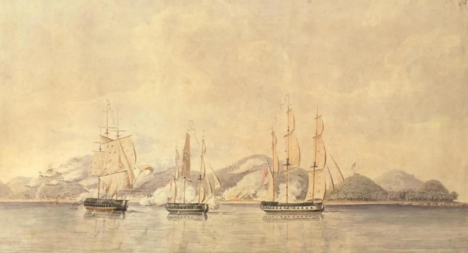 Amboyna captured from the Dutch by a squadron under Sir Edward Tucker Feb 1810 3rd view (PAH4085)